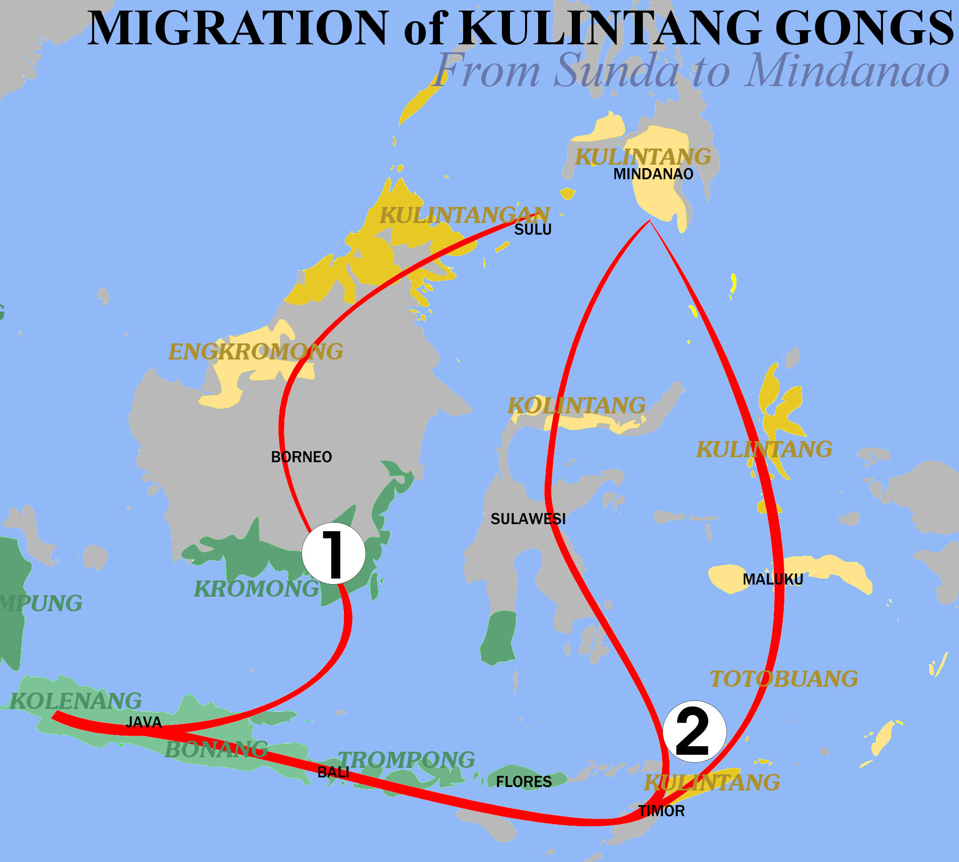 This map shows one of the two migration routes that the kulintang gong is believed to have made as it went through insular Southeast Asia.